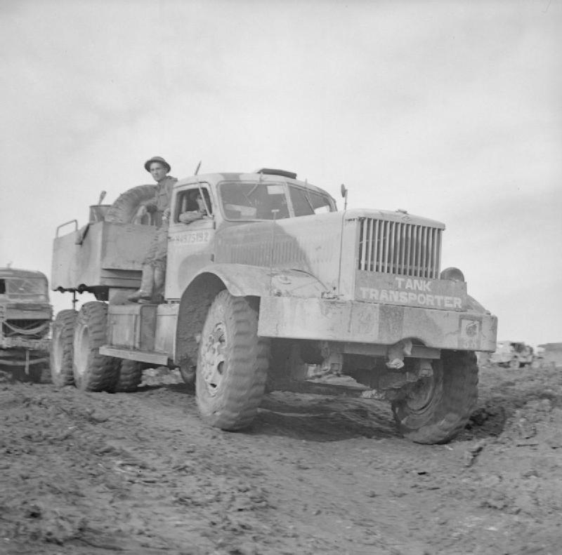 The British Army in Italy 1943 A Diamond T tank transporter, 30 November 1943.